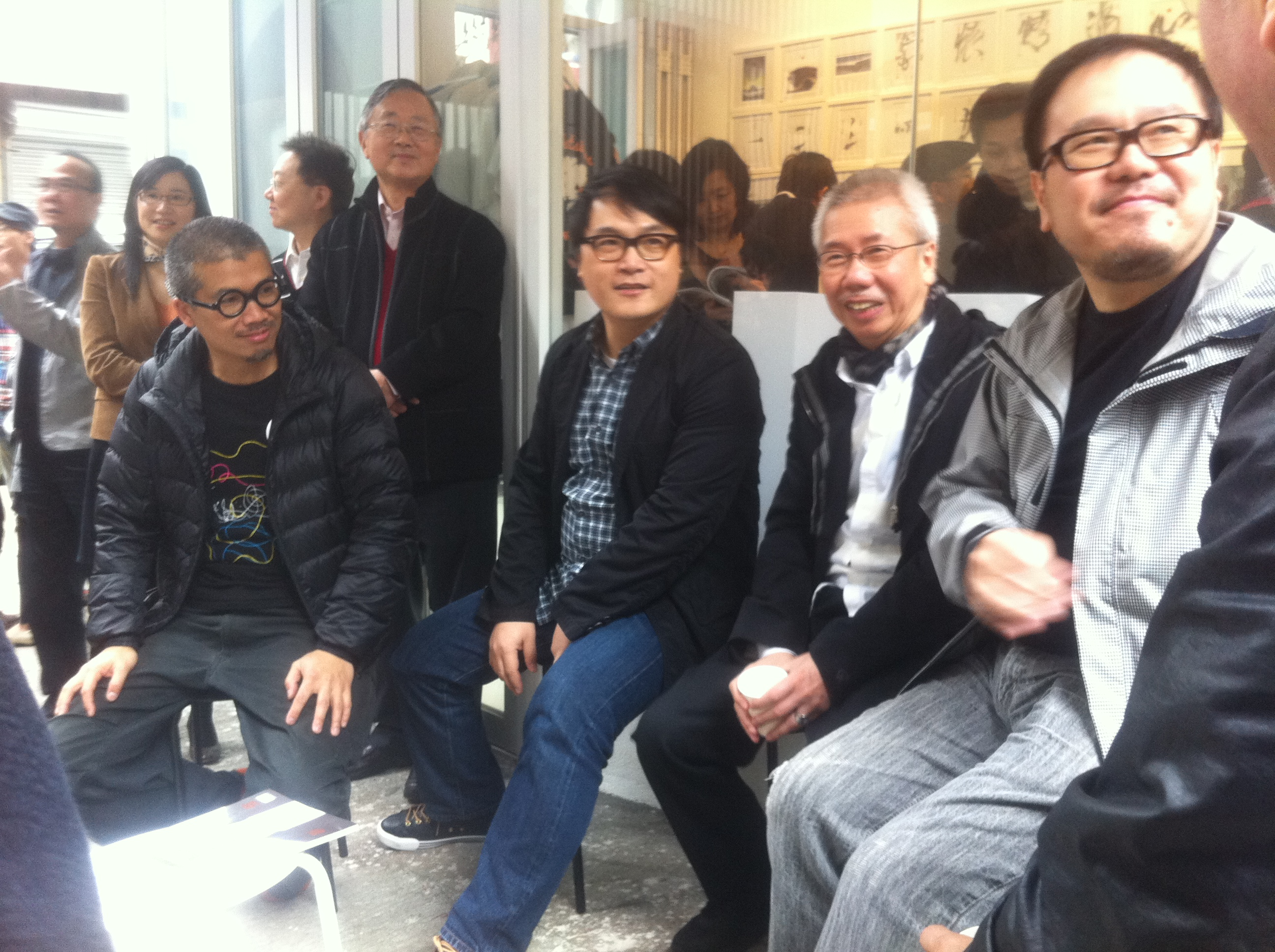 上環 太平山街 Tai Ping Shan Street, Upper Station Street - 靳埭強 美術作品展覽 2012